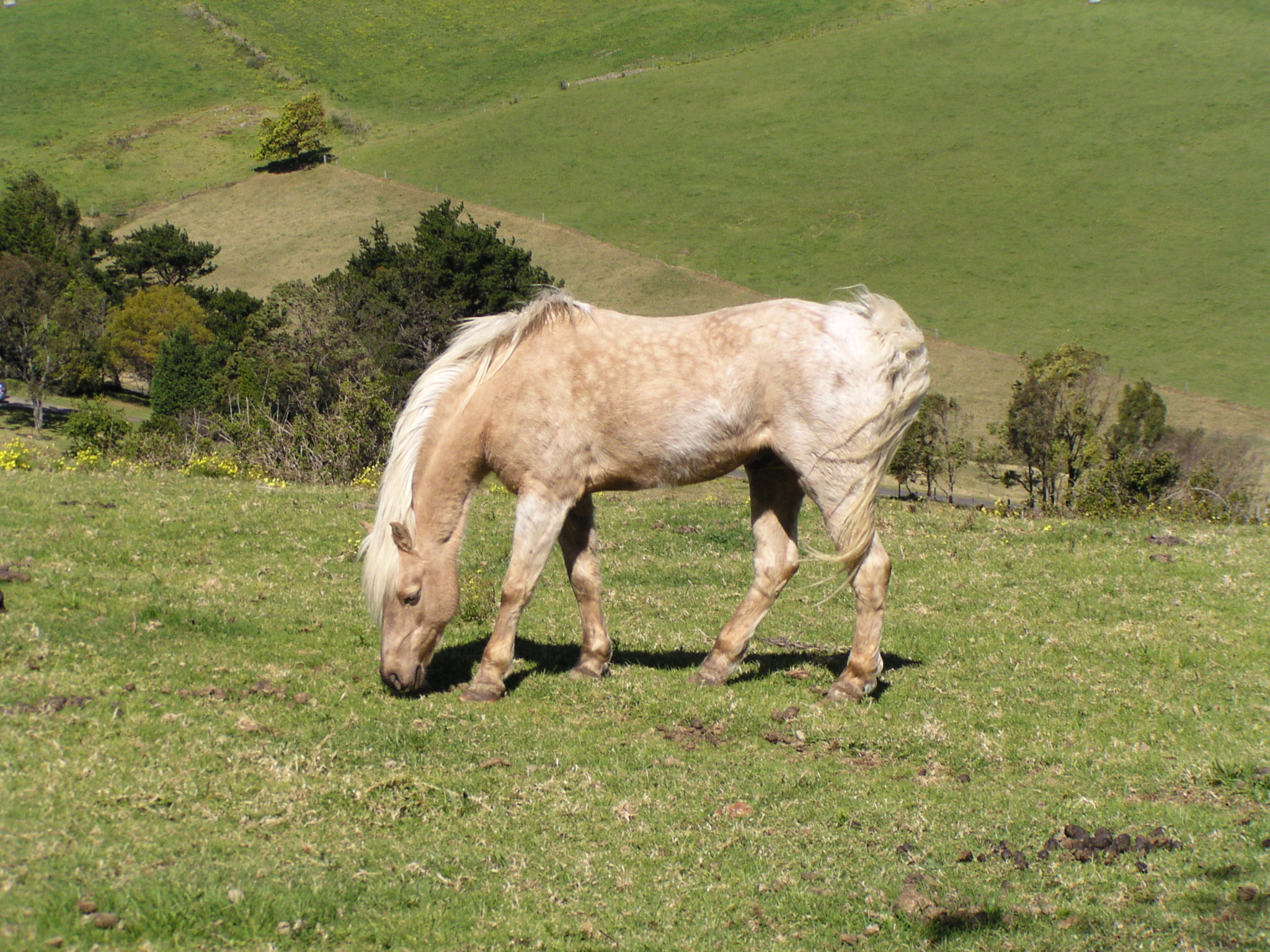 A rather windswept horse in a field between Kiama and Jamberoo